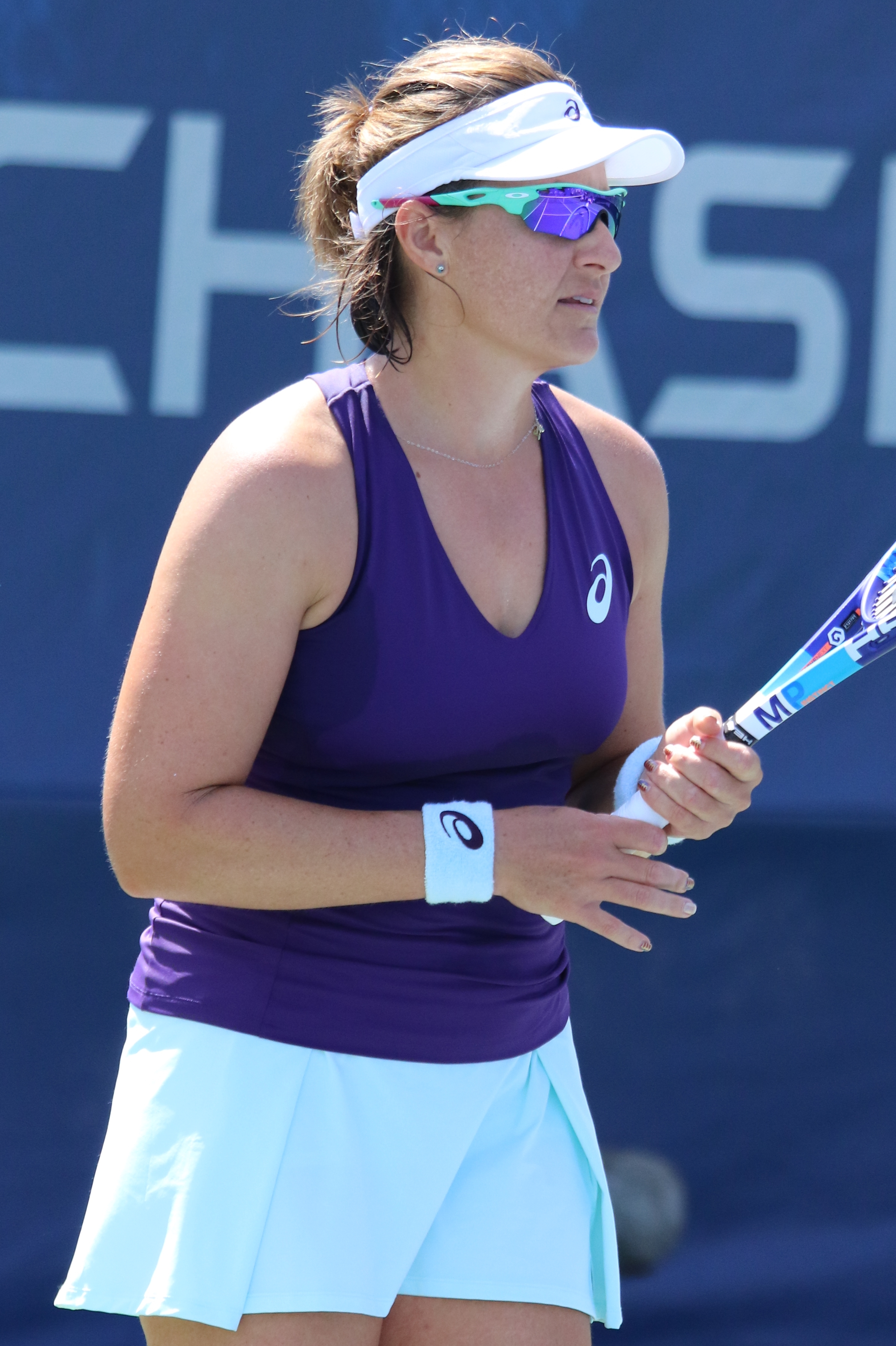 Spears US16 (13)